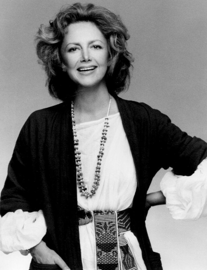 Photo of Cathryn Damon to announce she would play Mary Campbell in the television series SOAP.